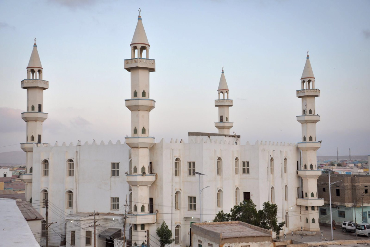 Bosaso mosque